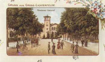 Historic View.